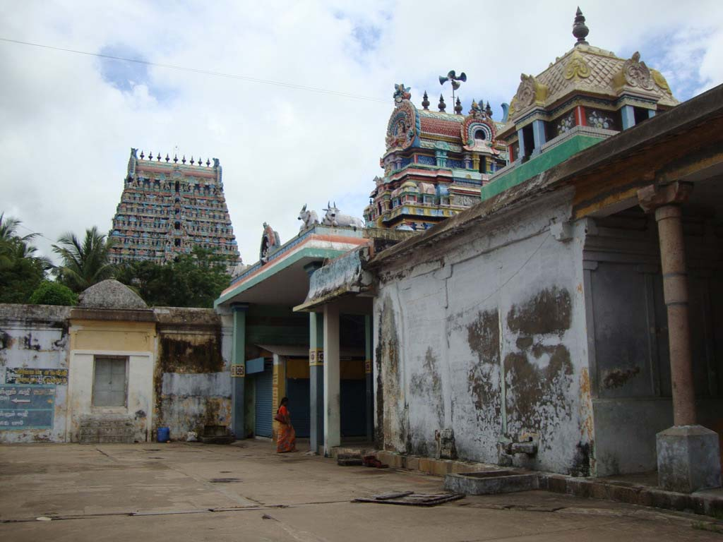 Kovil